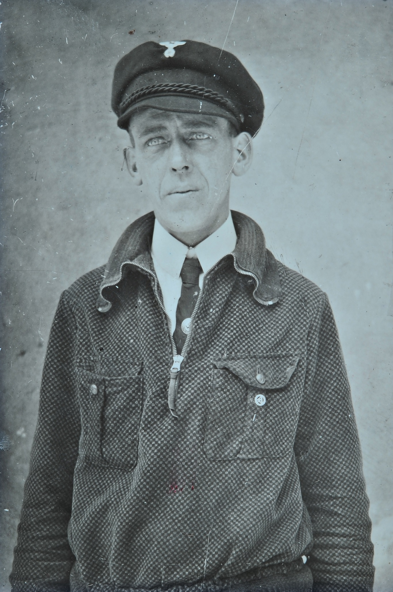 The SA-man Franz Blaesner, executed on July 1 1934 as one of the victims of the Night of the Long Knives.